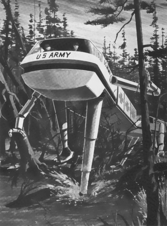 Army Landwalker 1964 mural concept.